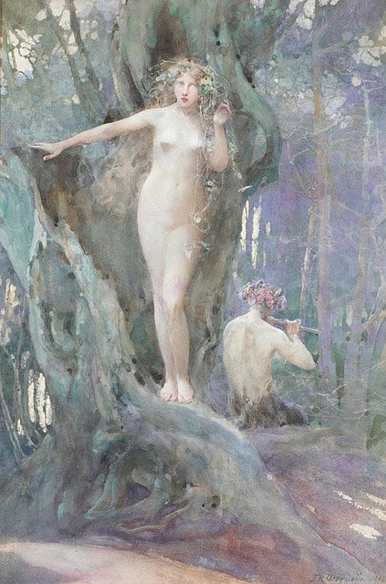 In the forest, a nymph listens attentively as Pan plays his flute. She has flowers in her long, golden hair, and she leans against a gnarled tree. Sunlight penetrates the canopy.